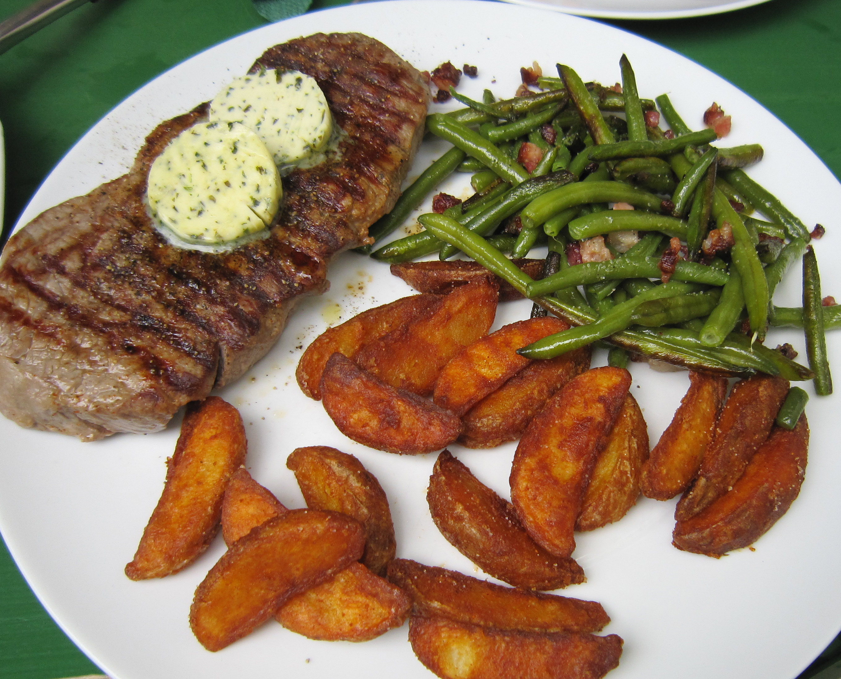 A Round steak.